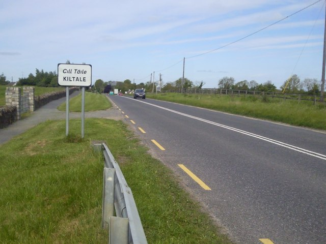 Approaching Kiltale, Co Meath